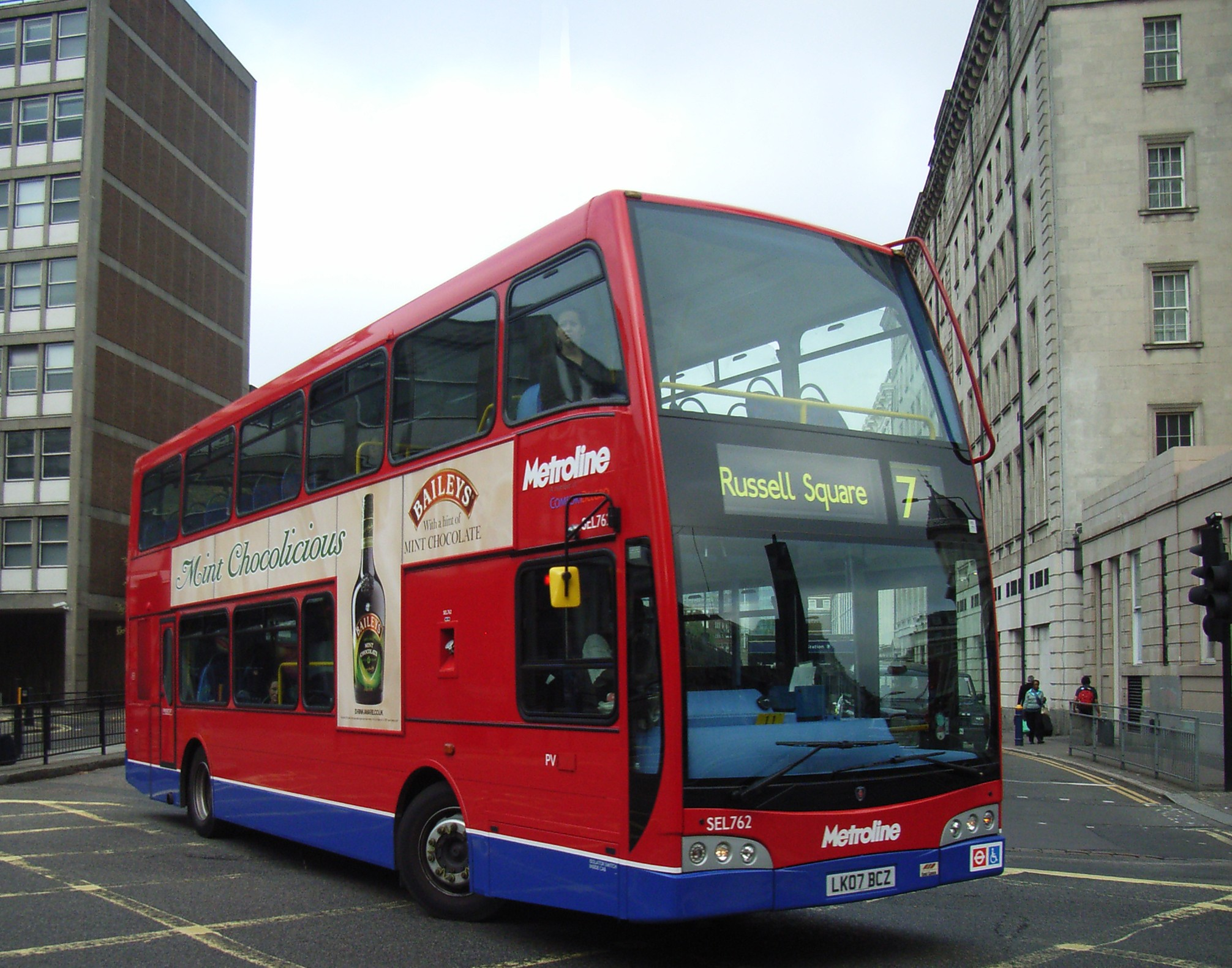 Metroline SEL762 (LK07 BCZ), a Scania N230UD/East Lancs Olympus, at London Paddington, on route 7, on 13 October 2007.